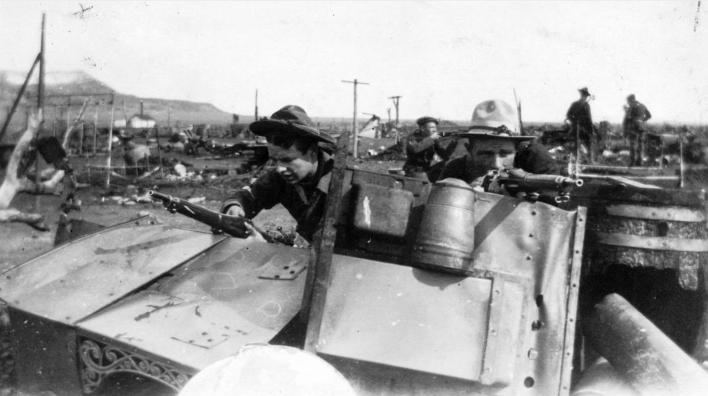 Guardsmen inside the ruined colony following the fire that killed eleven children and two women.